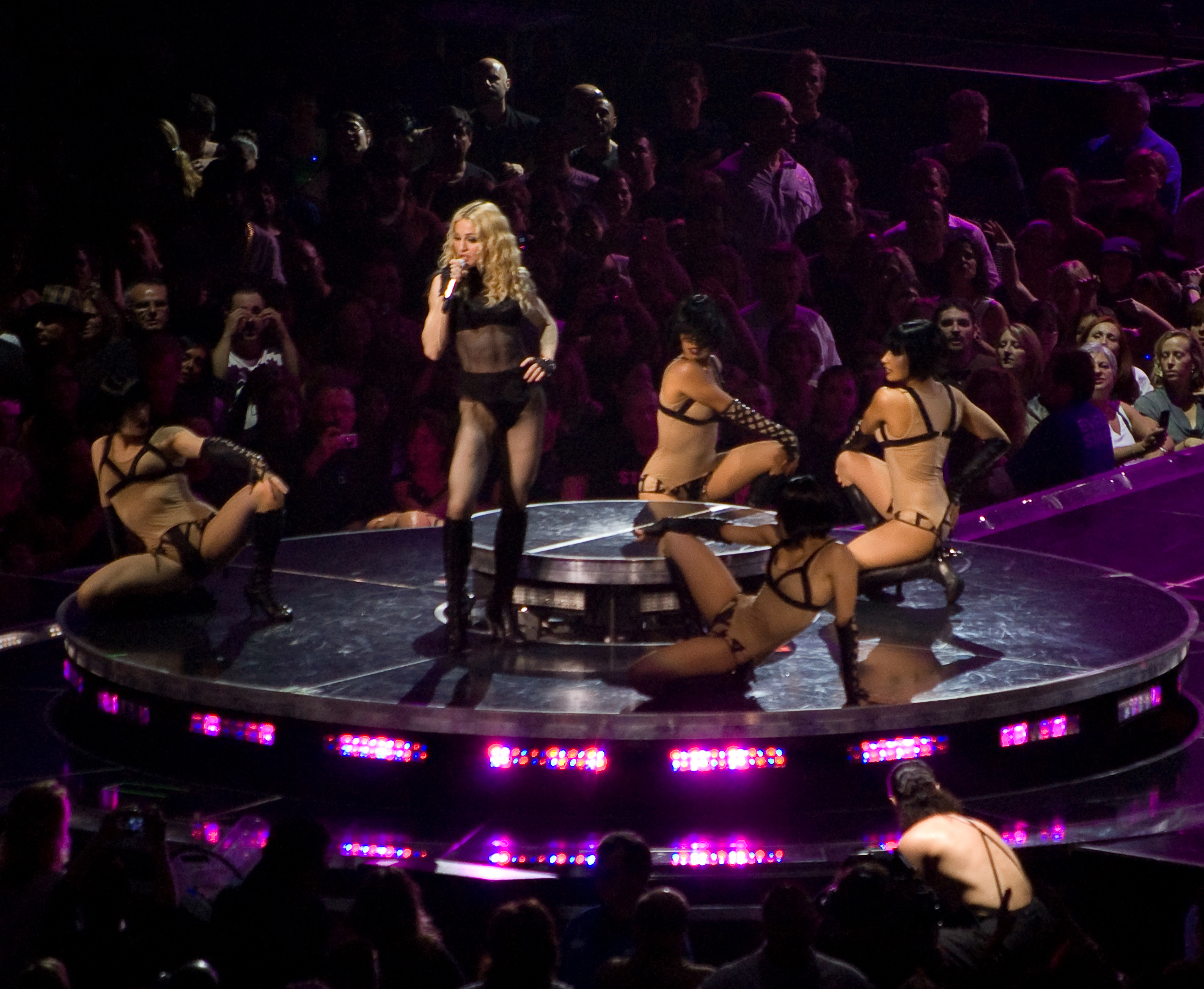 Madonna Sticky & Sweet Tour 2008-7